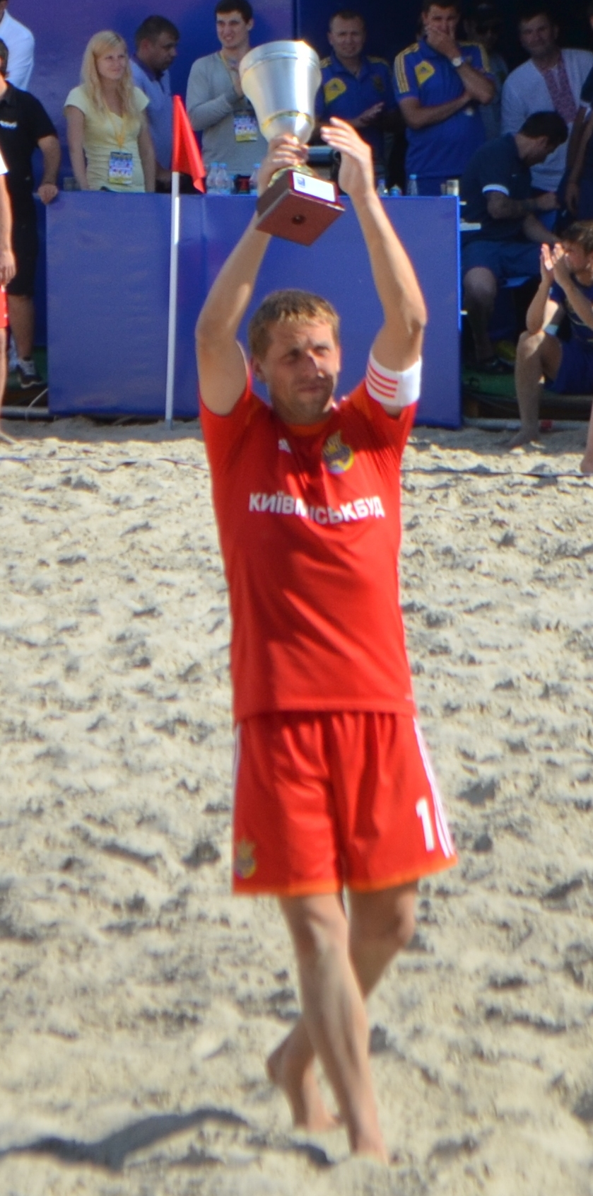 Vitaliy Sydorenko is a professional beach soccer player, the main goalkeeper of the Ukrainian national beach soccer team, the Best Goalkeeper of several tournaments